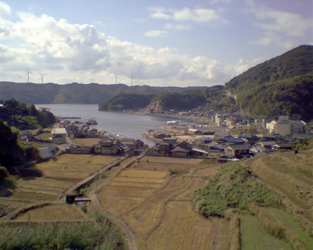 This photograph is the Fishing village located in Kariya (in Genkai town,Higashimatsuura District,Saga,Japan).